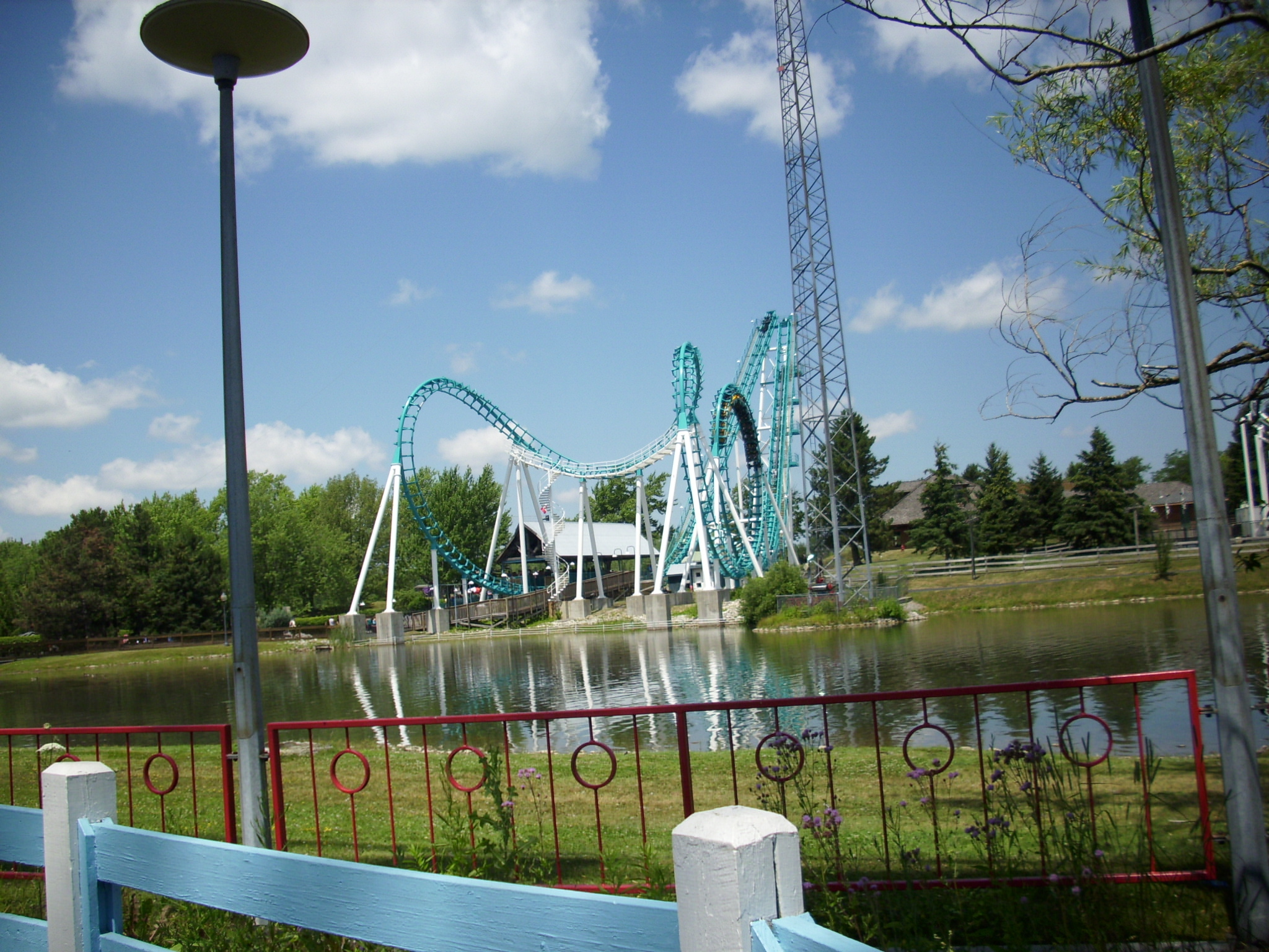 A Vekoma Boomerang roller coaster at Darien Lake